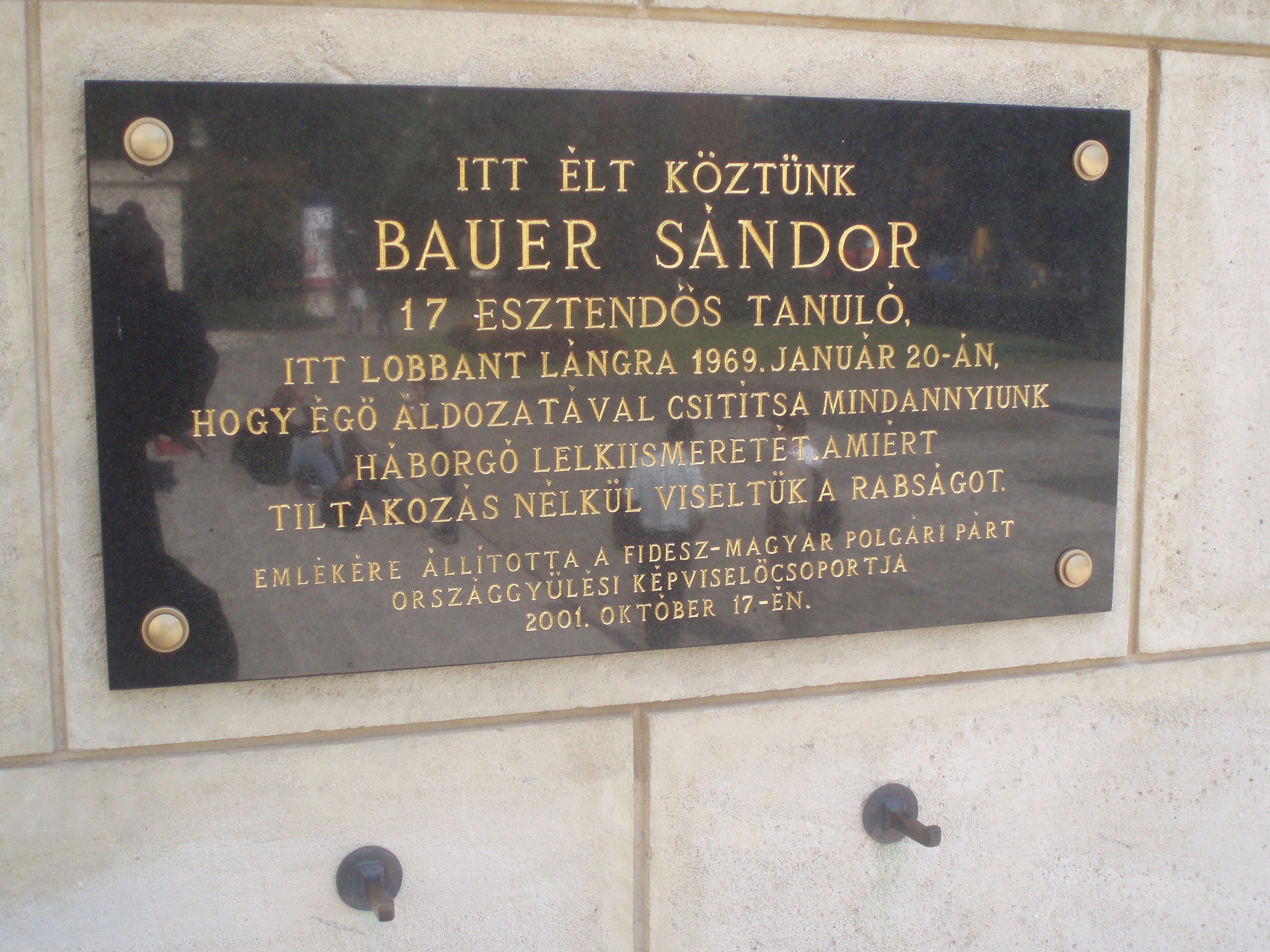 Sándor Bauer commemorative plaque at the Hungarian National Museum.